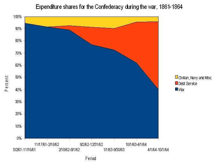 Shares of expenditure by category for the Confederate states during the American Civil War. Based on Burdekin and Langdana, 1993, Explorations in Economic History